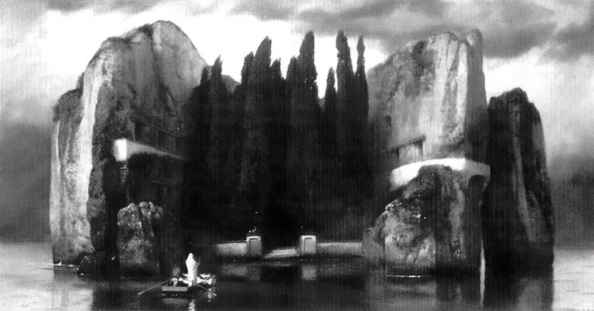 black and white photography